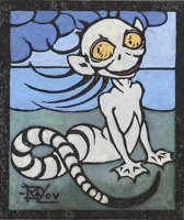 Marion Wallace Dunlop (22 December 1864 – 12 September 1942) was a noted artist and author. She was the first and one of the most well known British suffragettes to go on hunger strike, on 5 July 1909, after being arrested in July 1909 for militancy.[1] She was at the centre of the Women's Social and Political Union who campaigned by Emmeline Pankhurst to be remembered. She was one of her pallbearers and she looked after Emmeline's adopted daughter. Woodcuts are c.1906 1 of 12 Return to list › Artist Marion Wallace Dunlop: A Glaring Demon, (blue and yellow) from Devils in Diverse Shapes, circa 1906 from "Devils in Diverse Shapes"